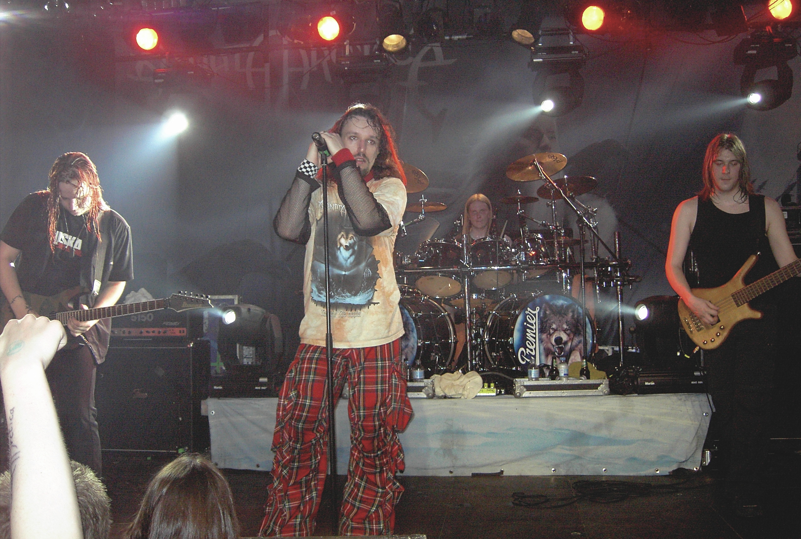 Sonata Arctica live at Helmond, 28th April 2006. From left to right: Jani Liimatainen, Tony Kakko, Tommy Portimo, Marko Paasikoski.